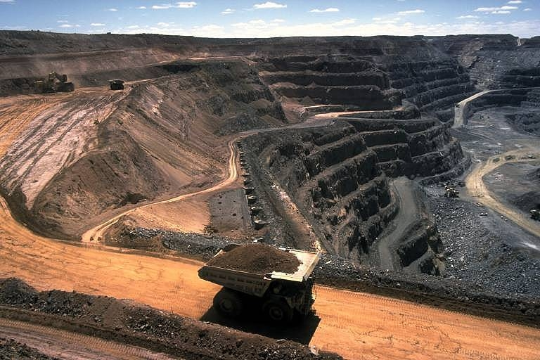 Open cut hard rock mining, Kalgoorlie, Western Australia Original caption "According to economists such as Julian Simon, non-renewable resources (such as gold which is seen being mined here on a large scale in Kalgoorie (sic), Western Australia) are actually becoming more abundant as time goes on and as population grows."